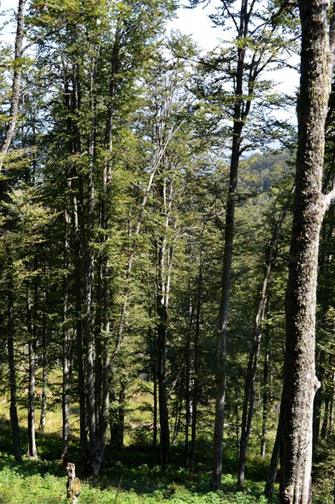 Raska Municipality -Golija